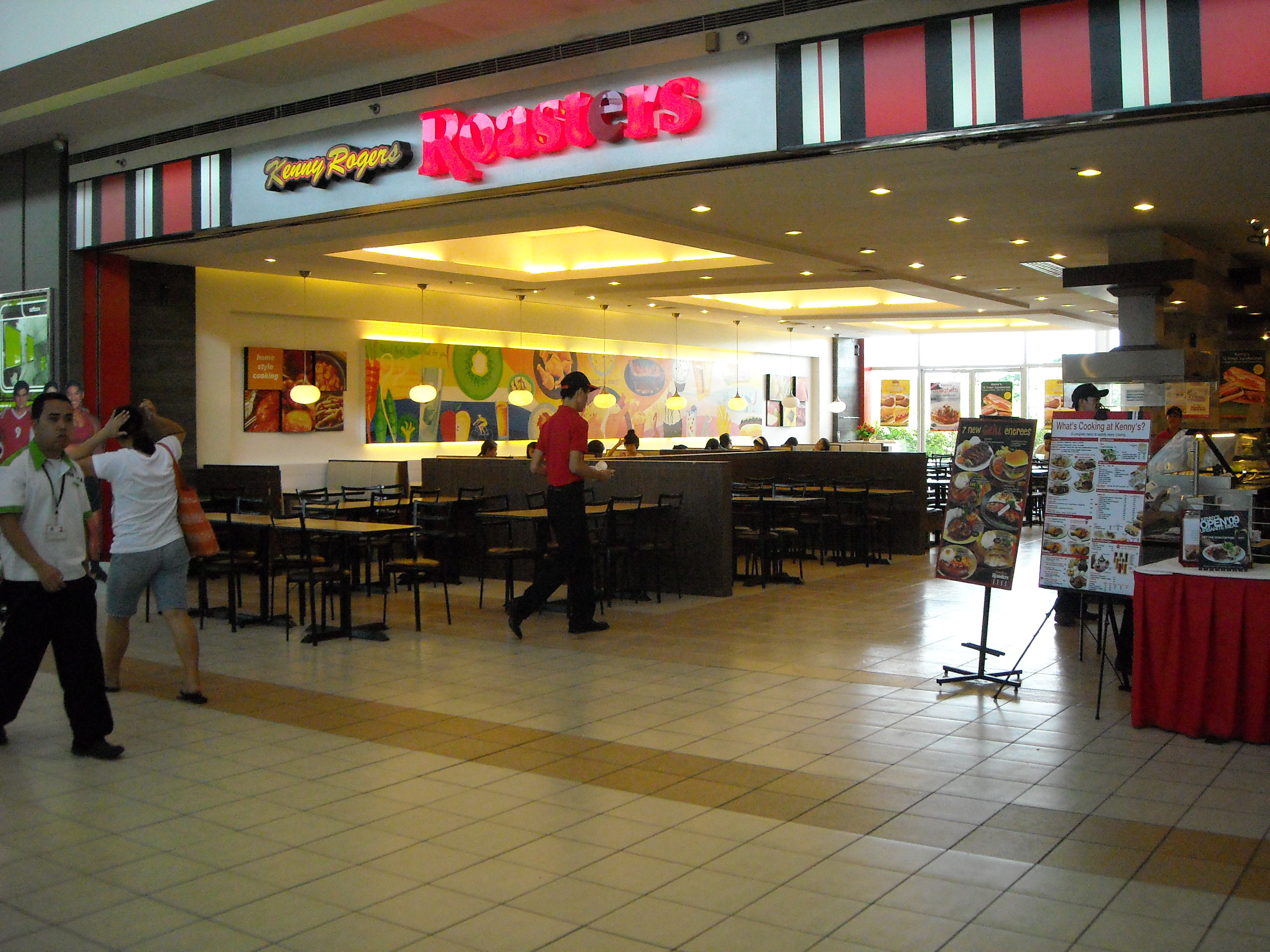 Front of Kenny Rogers Roasters located in SM Clark.